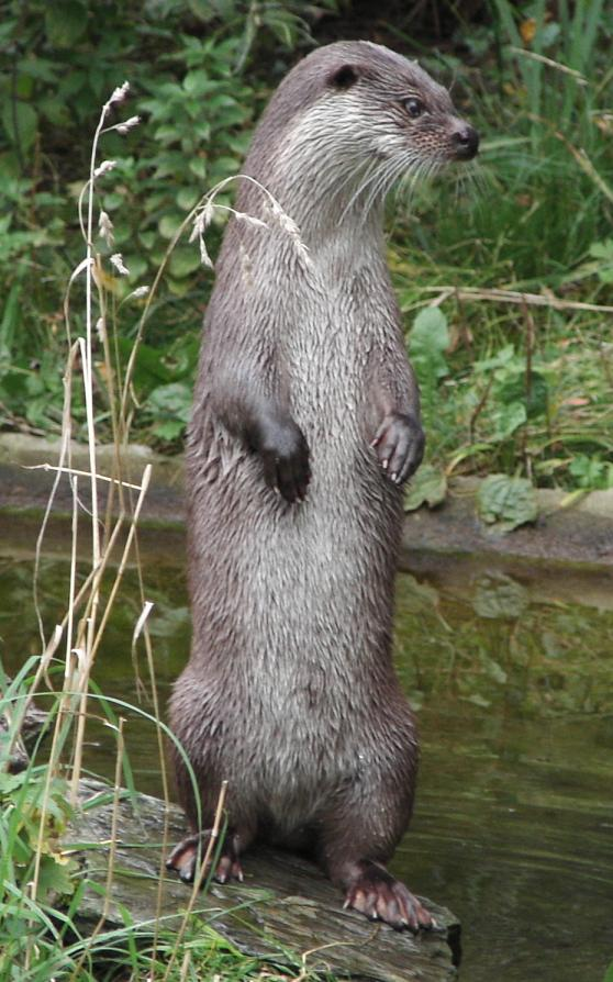 Lutra lutra standing up in Cologne Zoo, Germany.